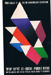 A poster created by Paul Kor and photo by me. This poster made for an Industry exhibition on 1973.